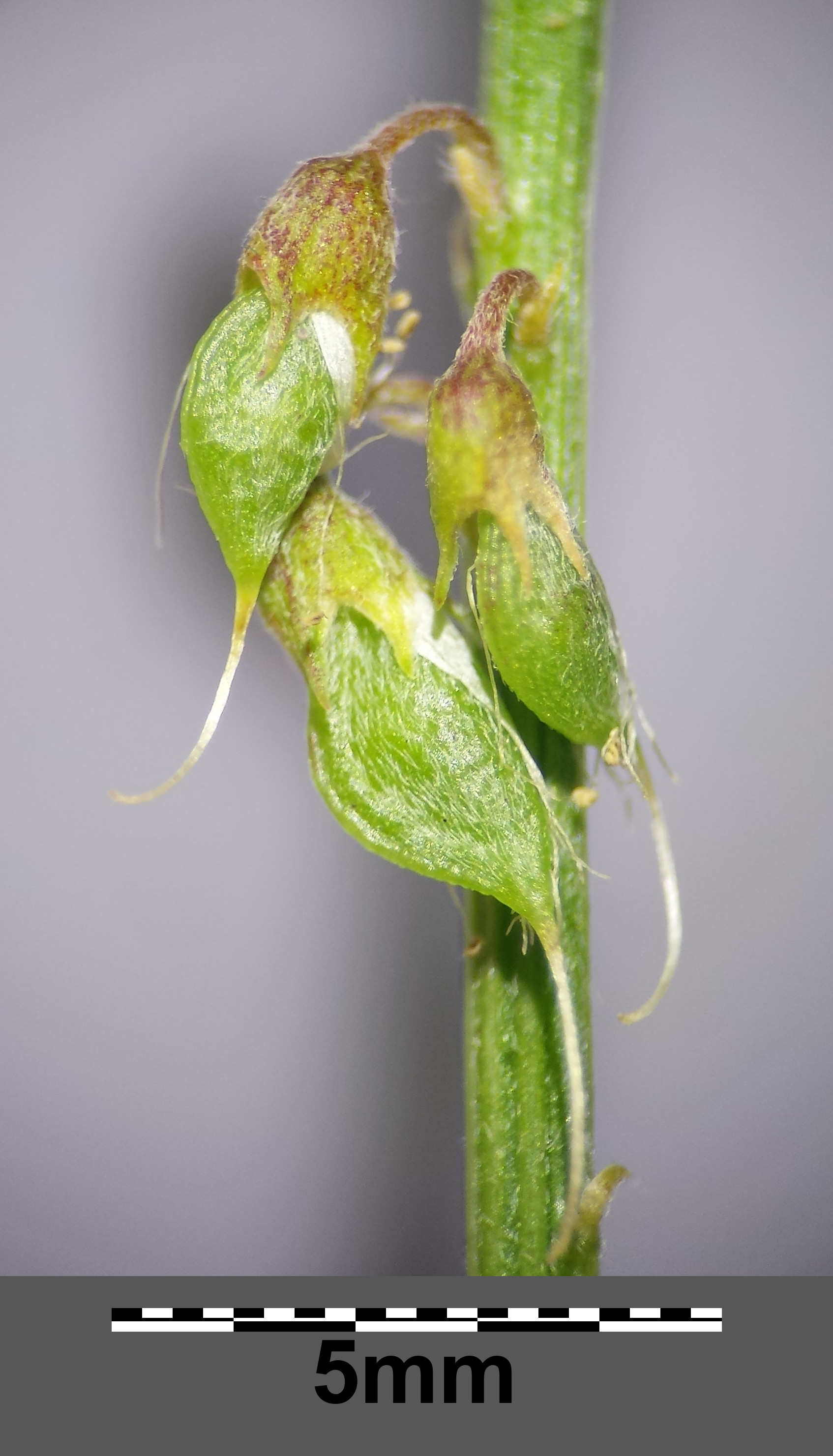 Hairy fruits Taxonym: Melilotus altissimus ss Fischer et al. EfÖLS 2008 ISBN 978-3-85474-187-9 Location: next to pond near Goldenes Bründl, Rohrwald, district Korneuburg, Lower Austria - ca. 225 m a.s.l. Habitat: wayside